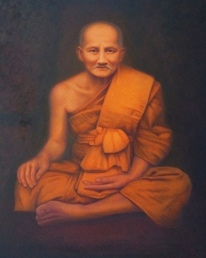 The picture of Luangpo Pan Sonanto